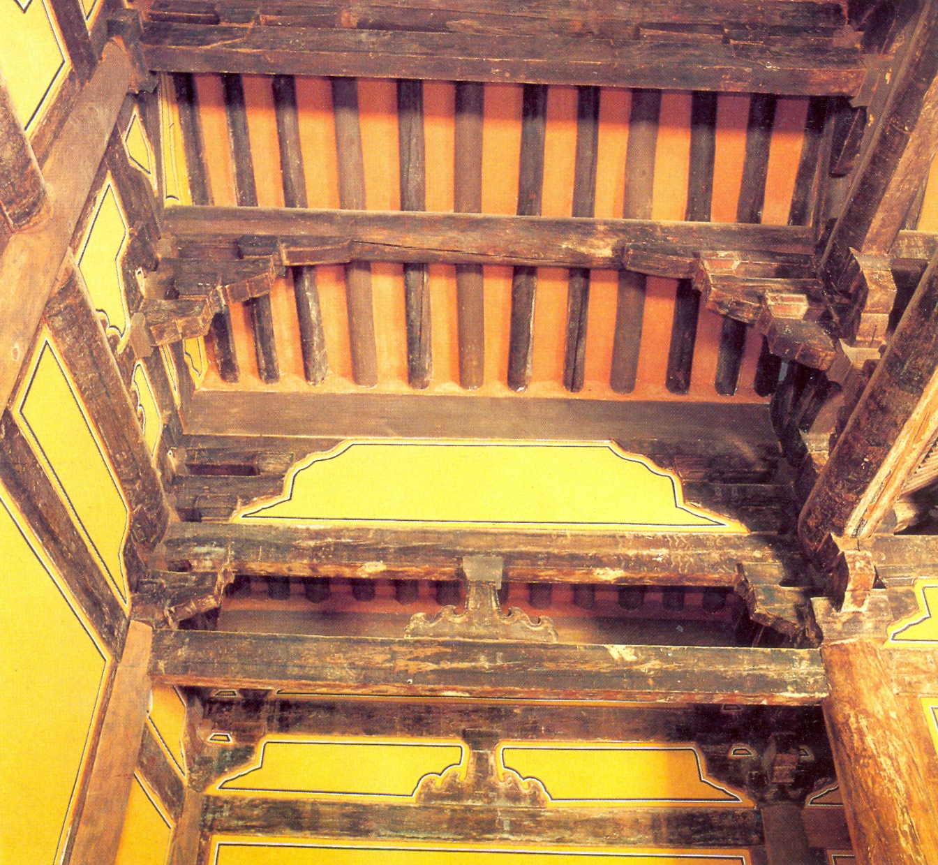 Bongjeongsa